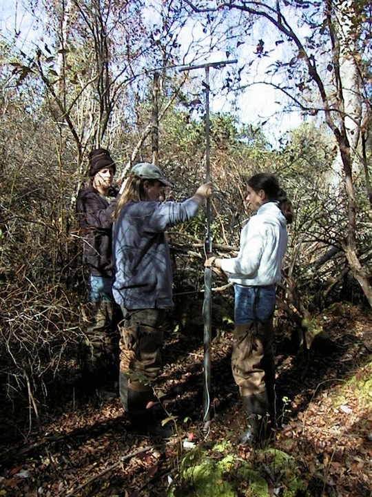 Cite: Fort Bragg Cultural Resources URL: Description: Pollen cores being taken at Fort Bragg, North Carolina.